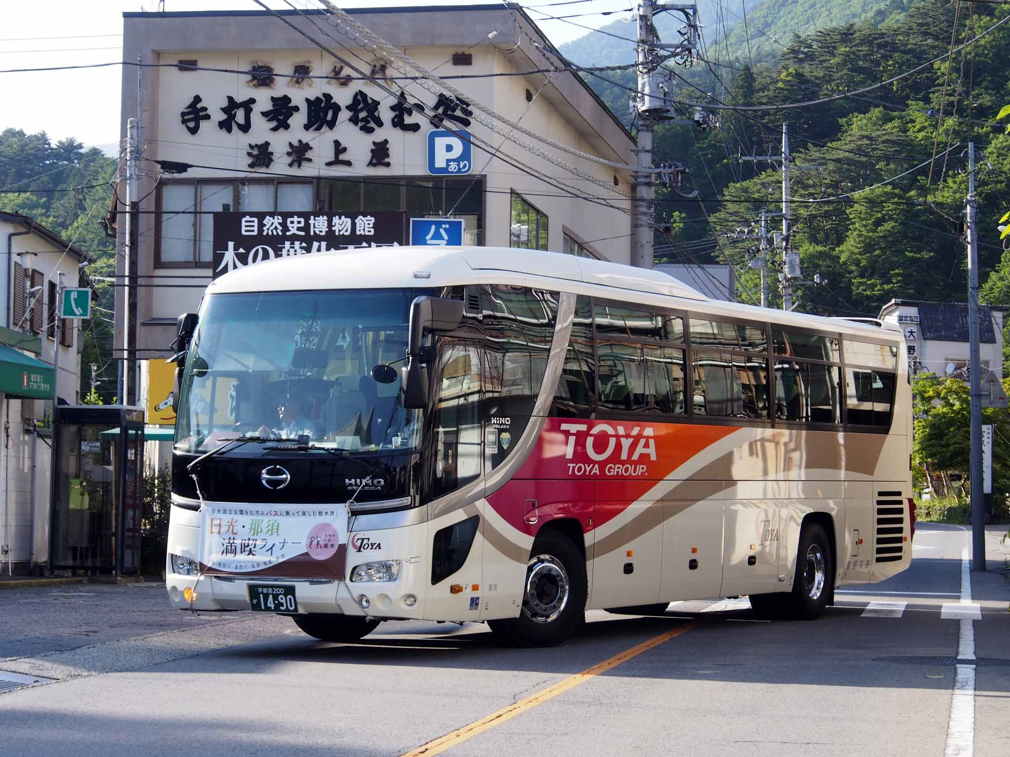 Nikko Nasu Mankitsu Liner arriving at Shiobara Onsen Bus Terminal. Model: Hino Selega HD RU License plate: TGU200 KA1490